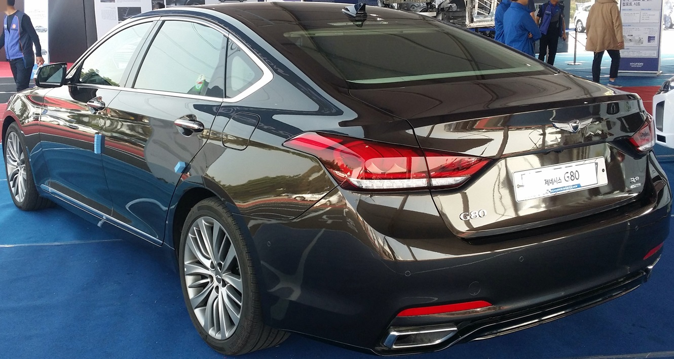 Genesis G80